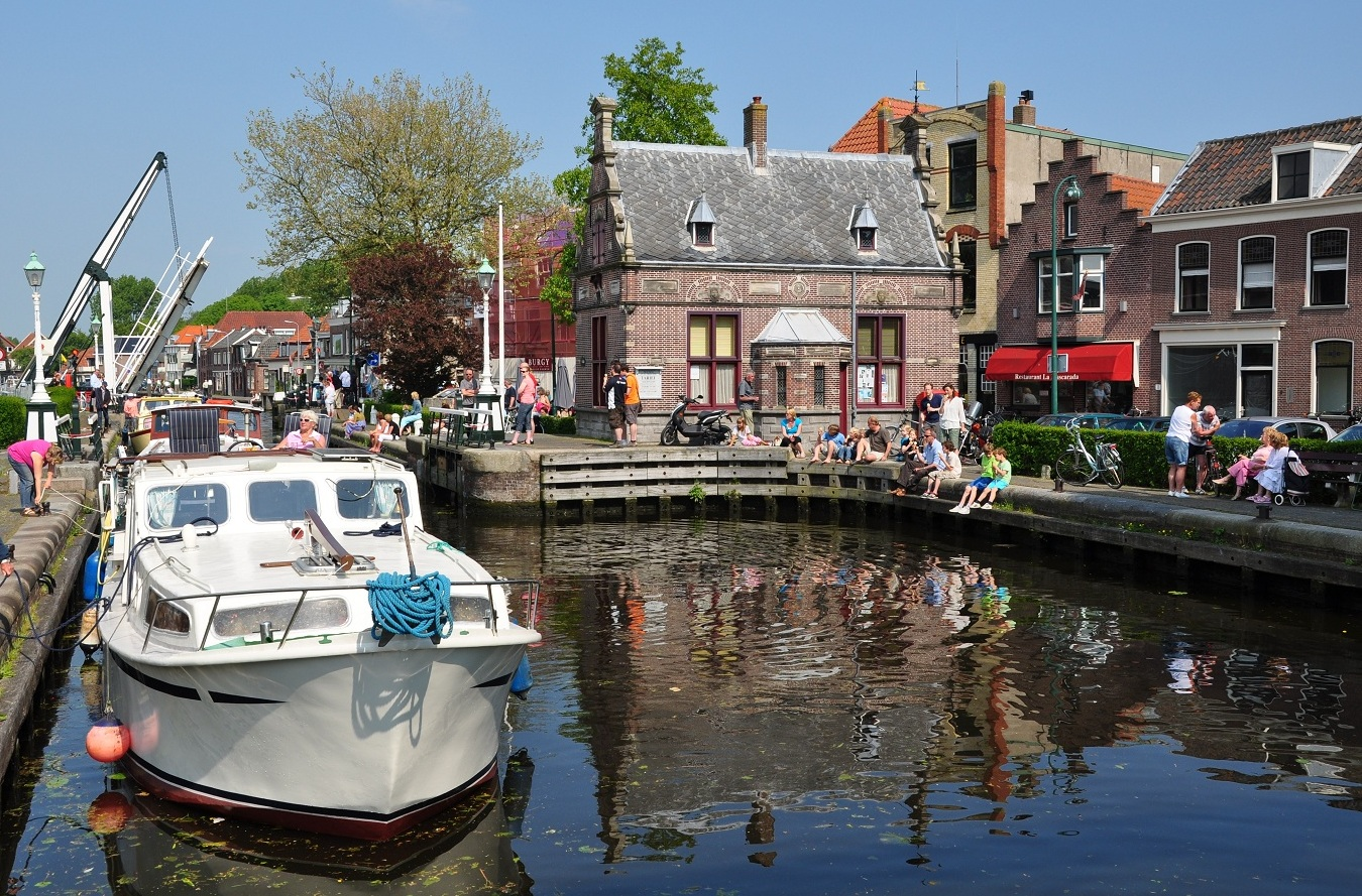 Lock in the Vliet Canal (Rhine-Schie Canal), Leidschendam, Netherlands